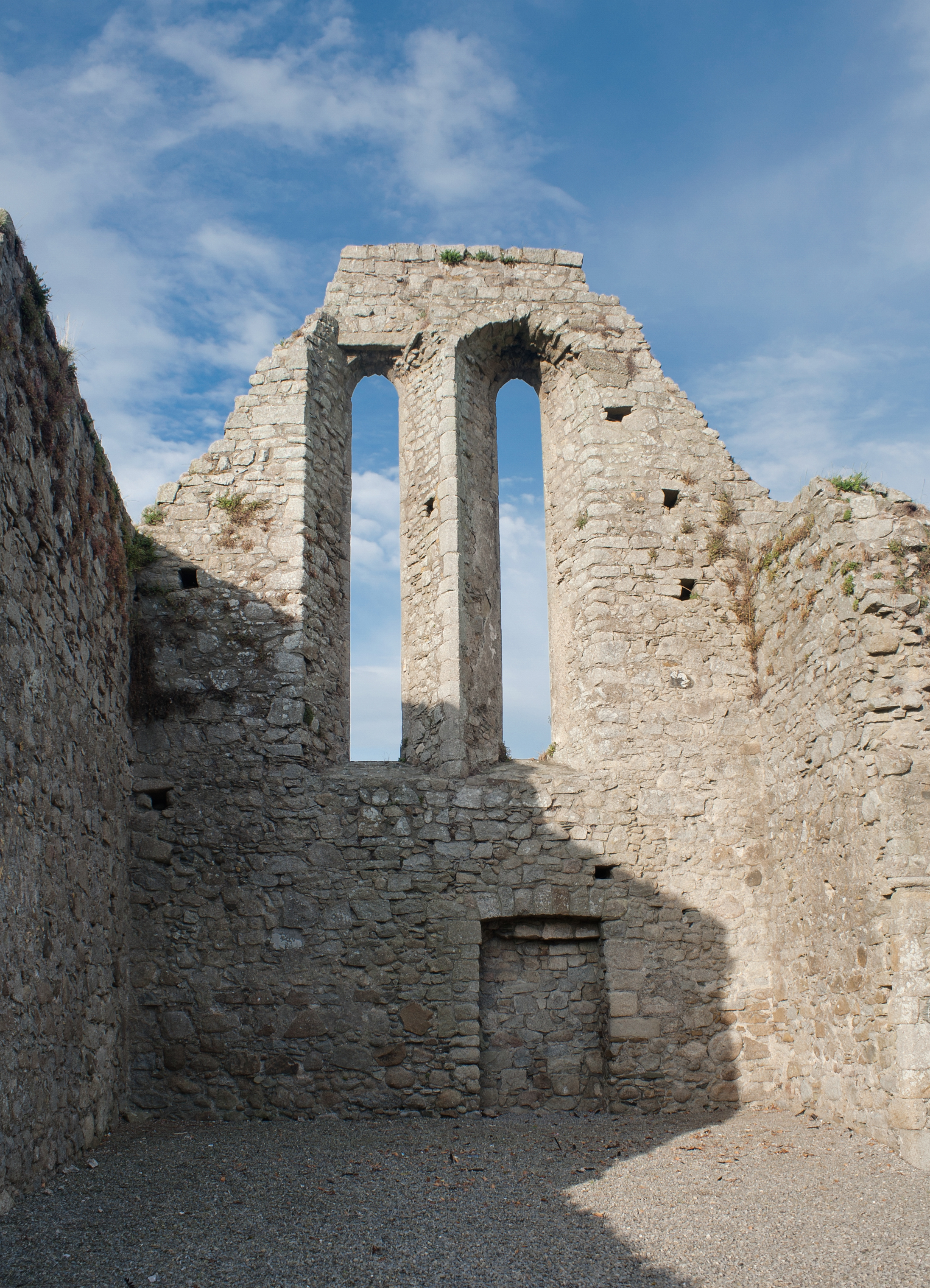 Lancet windows in the west gable of the nave, constructed c. 1240.